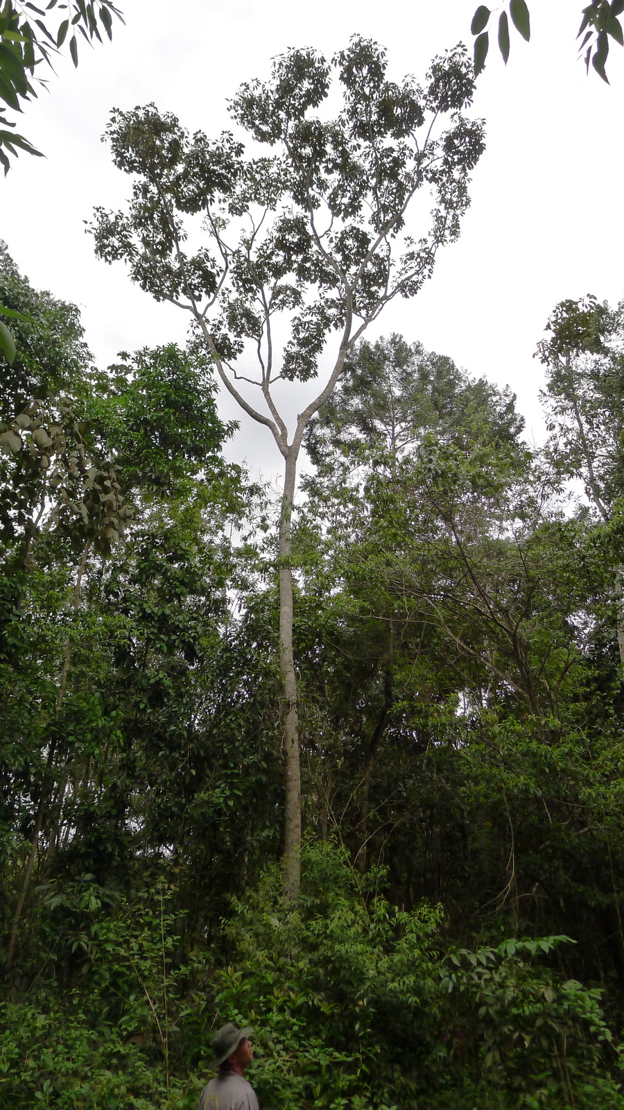 Schefflera morototoni (Aubl.) Maguire, Steyerm. & Frodin